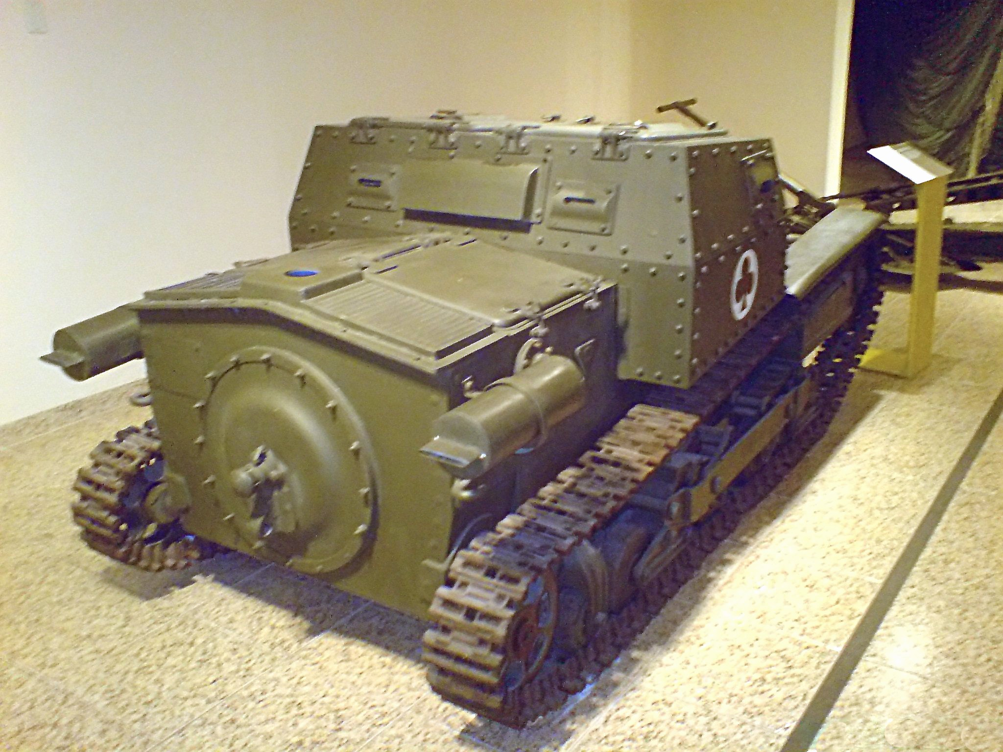 In 1938 the Brazilian Army bought several L3/35 which remained in active service until 1942, the year when Brazil declared war against the Axis countries. One of these tankettes is now on display at Museu Militar Conde de Linhares (Count Linhares Military Museum) in Rio de Janeiro, Brazil.